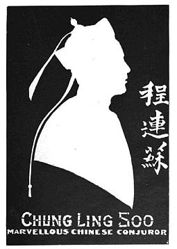 Chung Ling Soo (William Ellsworth Robinson)